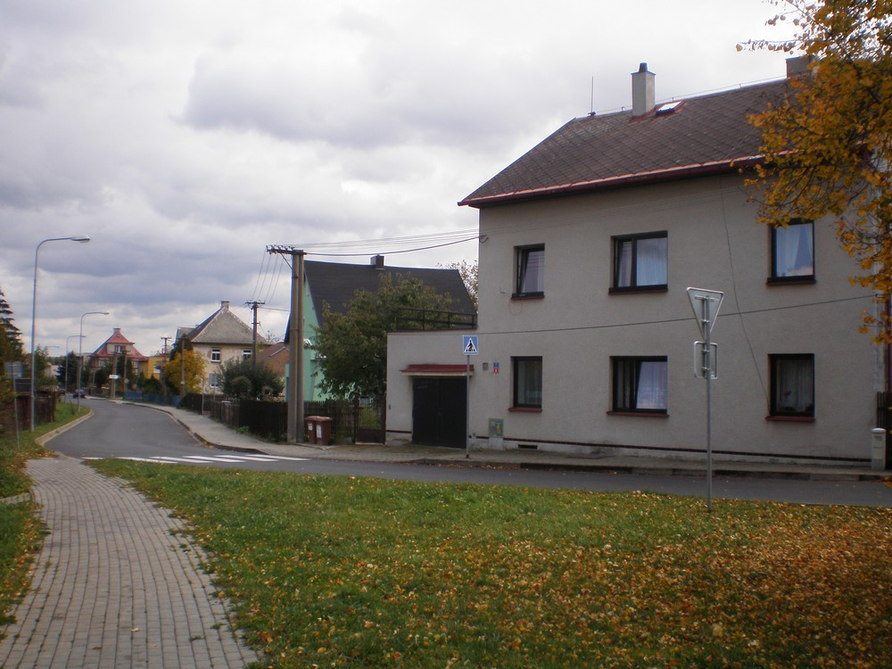 Háje (Cheb), Cheb District, Czech Republic; Blanická street